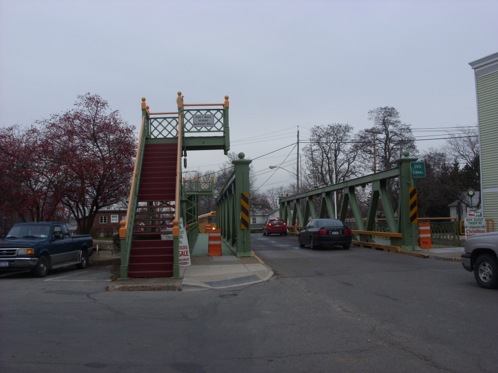 Bridge in Spencerport, New York over the Erie Canal.